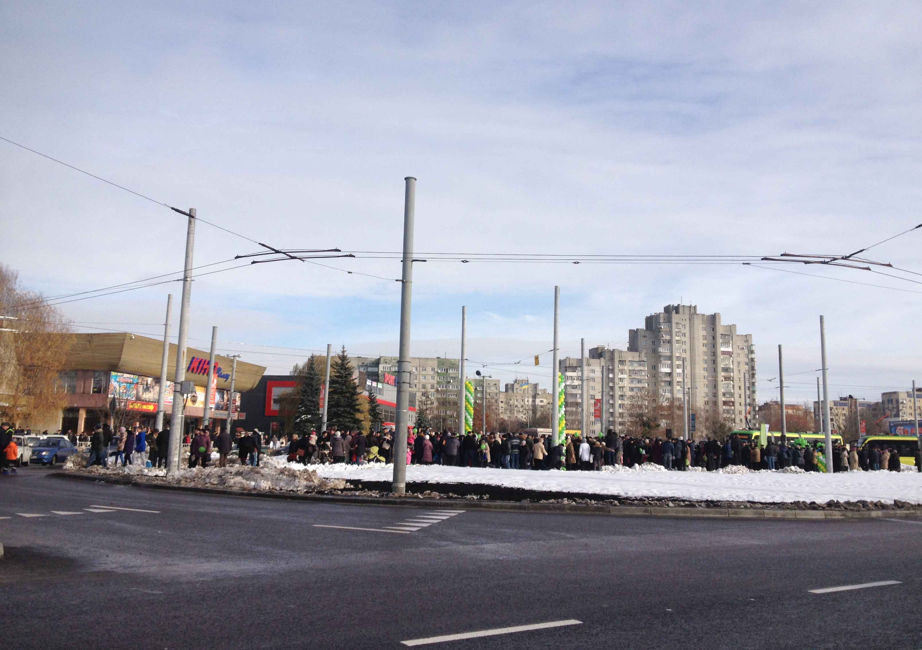 Opening ceremony of a new tram line to Sykhiv (Lviv, Ukraine).